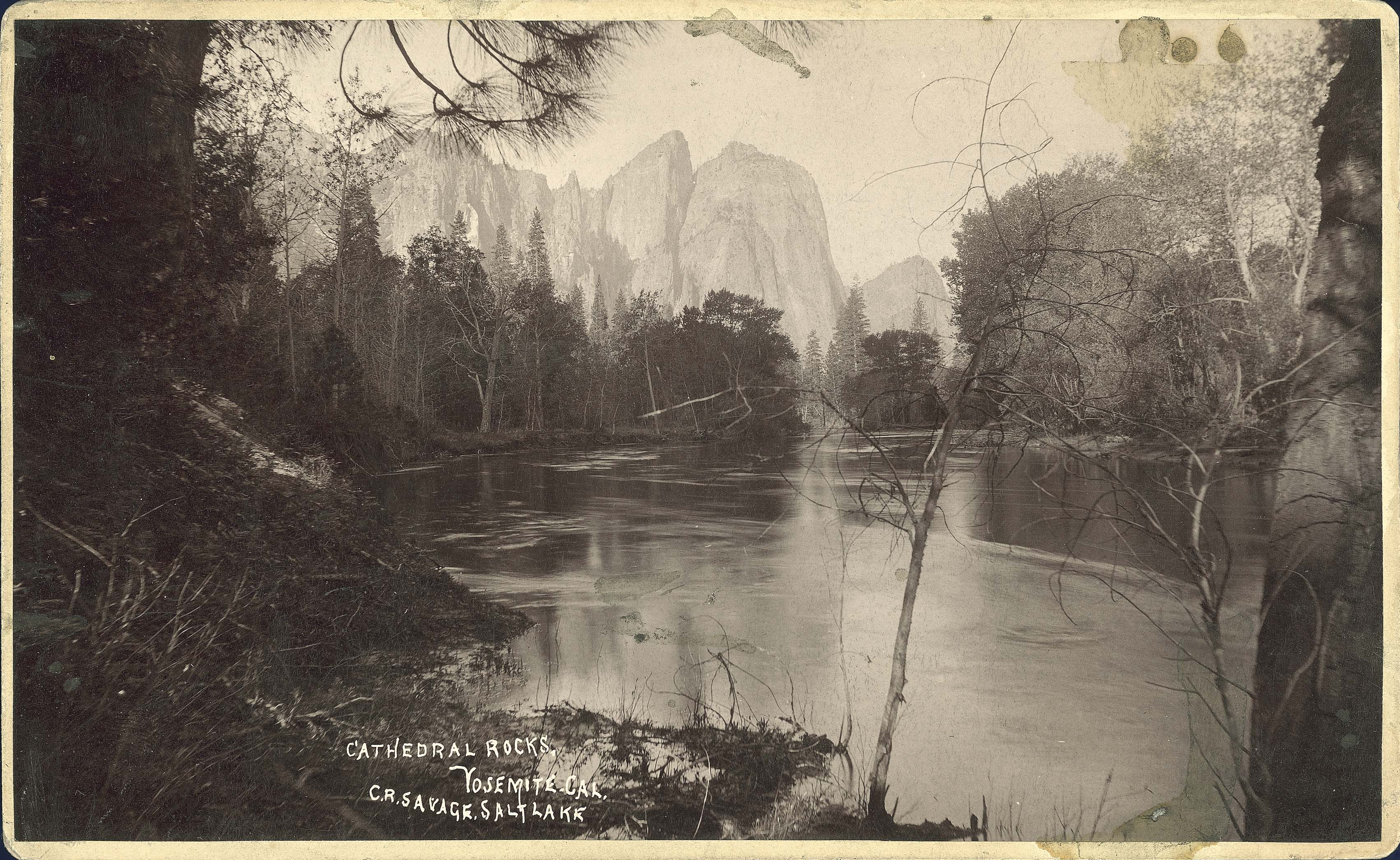 A scenic view of a lake in the foreground and tall, imposing rocks in the background. Back label- C.R. Savage, Art Bazar...Medals...1888.A scenic vi